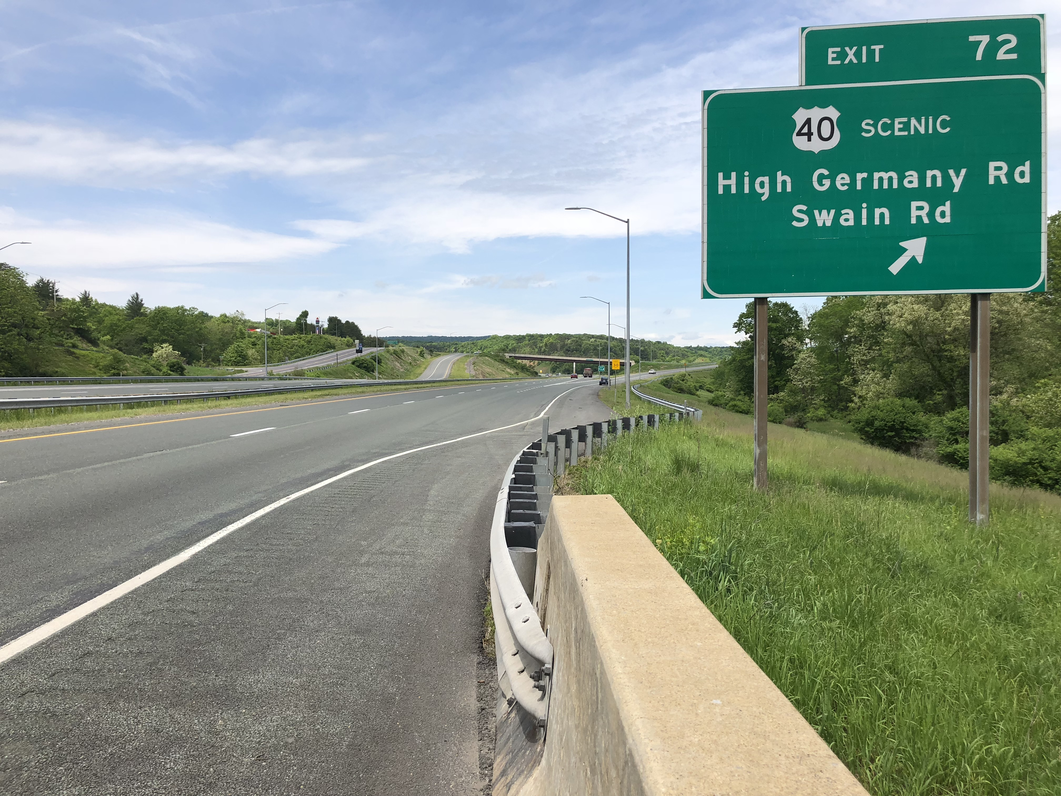 View west along Interstate 68 and U.S. Route 40 (National Freeway) at Exit 72 (U.S. Route 40 Scenic, High Germany Road, Swain Road) in Bellegrove, Allegany County, Maryland